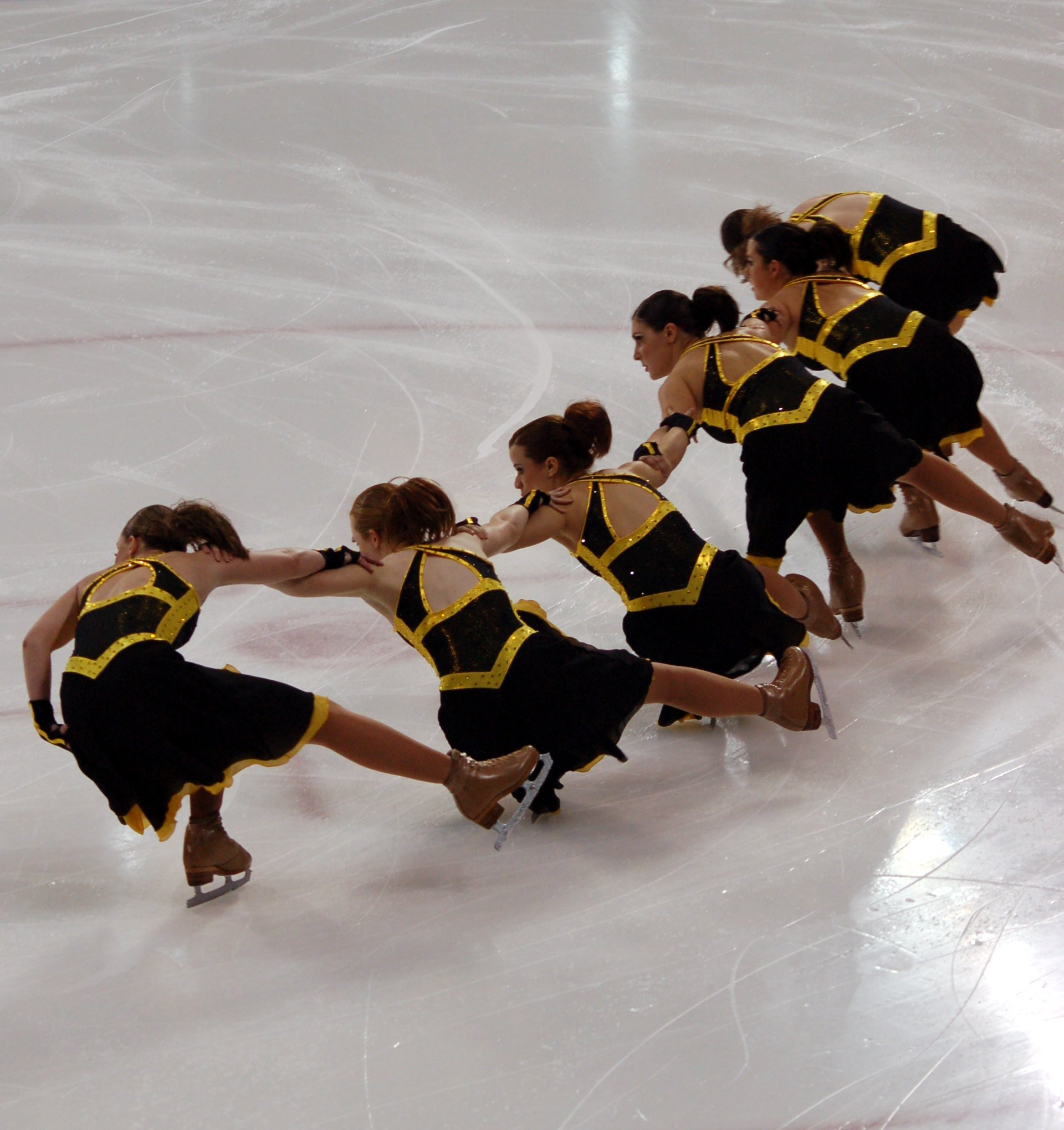 The Miami University Synchronized Skating Team's Junior Varsity team perform shoot-the-ducks during the 2007 Colonial Classic, the Junior World Qualifier.